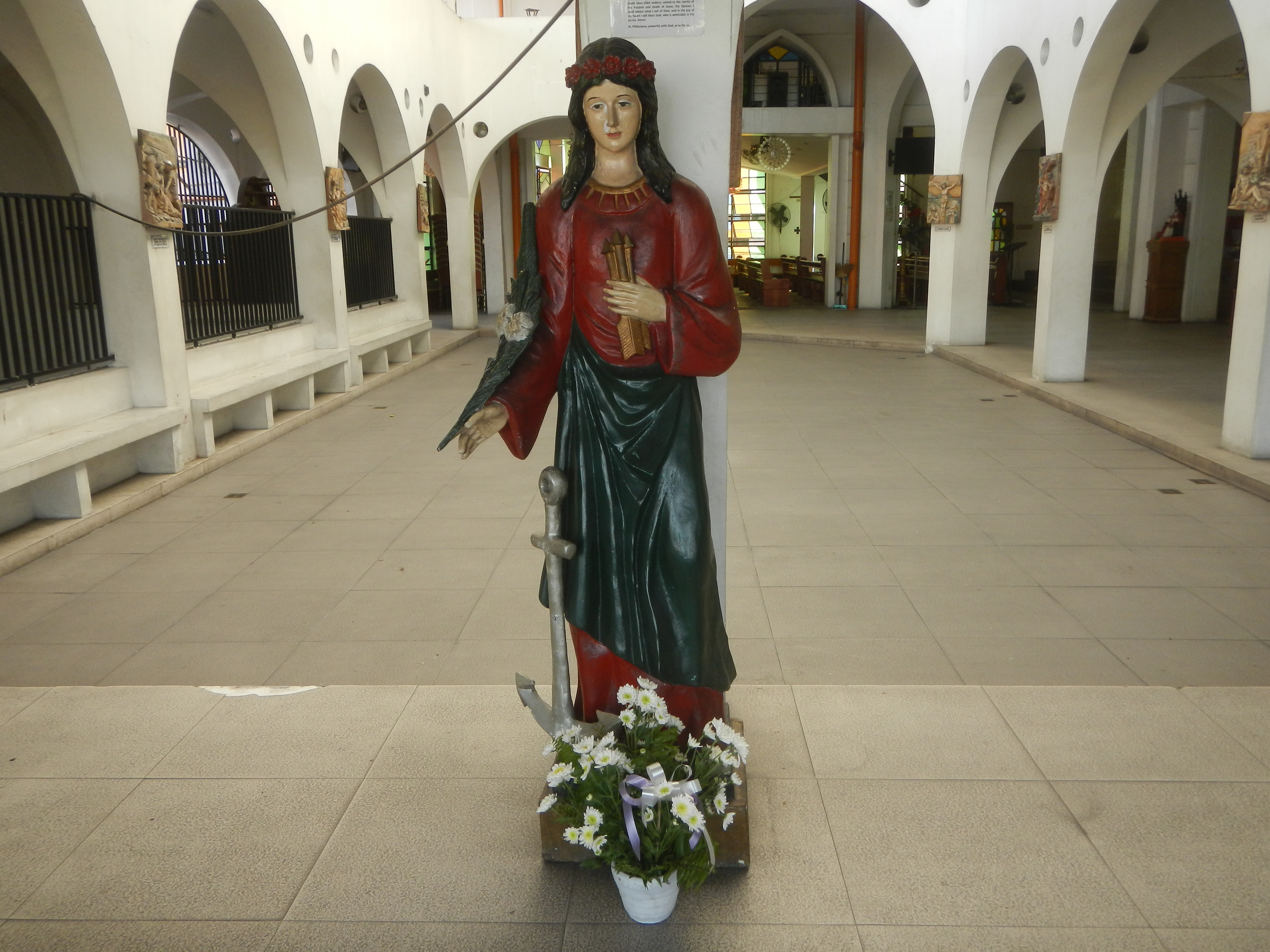 Saint John Mary Vianney Parish Church (Narra Street, Cembo, Makati City) 14°33'46"N 121°3'12"E Solemnly Dedicated June 29, 2006 Established 1949, Titular Santo Nino, 1954, concrete chapel 1954 Established as Parish on June 17, 2002 Blessed on November 11, 2005 Central Enlistedmen's Barrio - Barangay 25 or Central Enlisted Men's Barrio along and from Lawton Avenue Phase II-A BGC Viaduct corner Kalayaan Avenue (Makati City) and J. P. Rizal Extension, District II, List of barangays of Metro Manila, Legislative districts of Makati, Barangays Cembo 14°33'54"N 121°3'2"E West Rembo 14°33'40"N 121°3'36"E East Rembo 14°33'11"N 121°3'42"E Barangay Northside, Makati City - Barangay 30 14°33'48"N 121°3'15"E Makati City (beside and bounded, upon the Pasig City Welcome - Boundary Buting Monument in Kalayaan Avenue, East Rembo, Makati City in List of barangays of Metro Manila, Barangay Buting 14°33'19"N 121°4'8"E Pasig City (Note: Judge Florentino Floro, the owner, to repeat, Donor Florentino Floro of all these photos hereby donate gratuitously, freely and unconditionally all these photos to and for Wikimedia Commons, exclusively, for public use of the public domain, and again without any condition whatsoever).